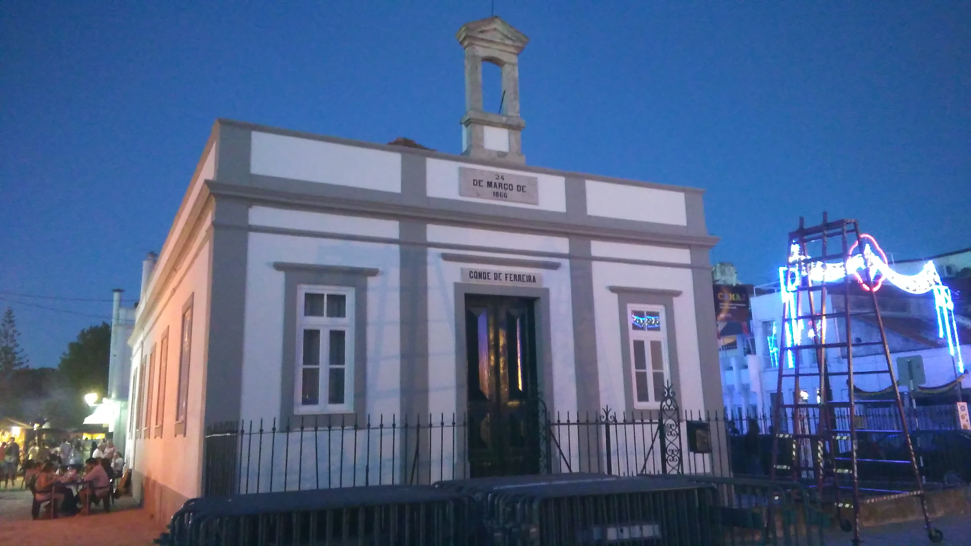 Conde de Ferreira School in Seixal, Portugal.